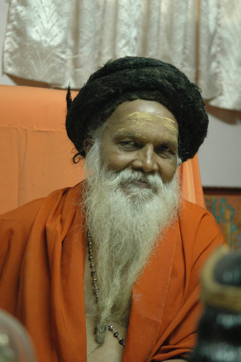 Jagad Guru Swamy Satyananda Saraswathy